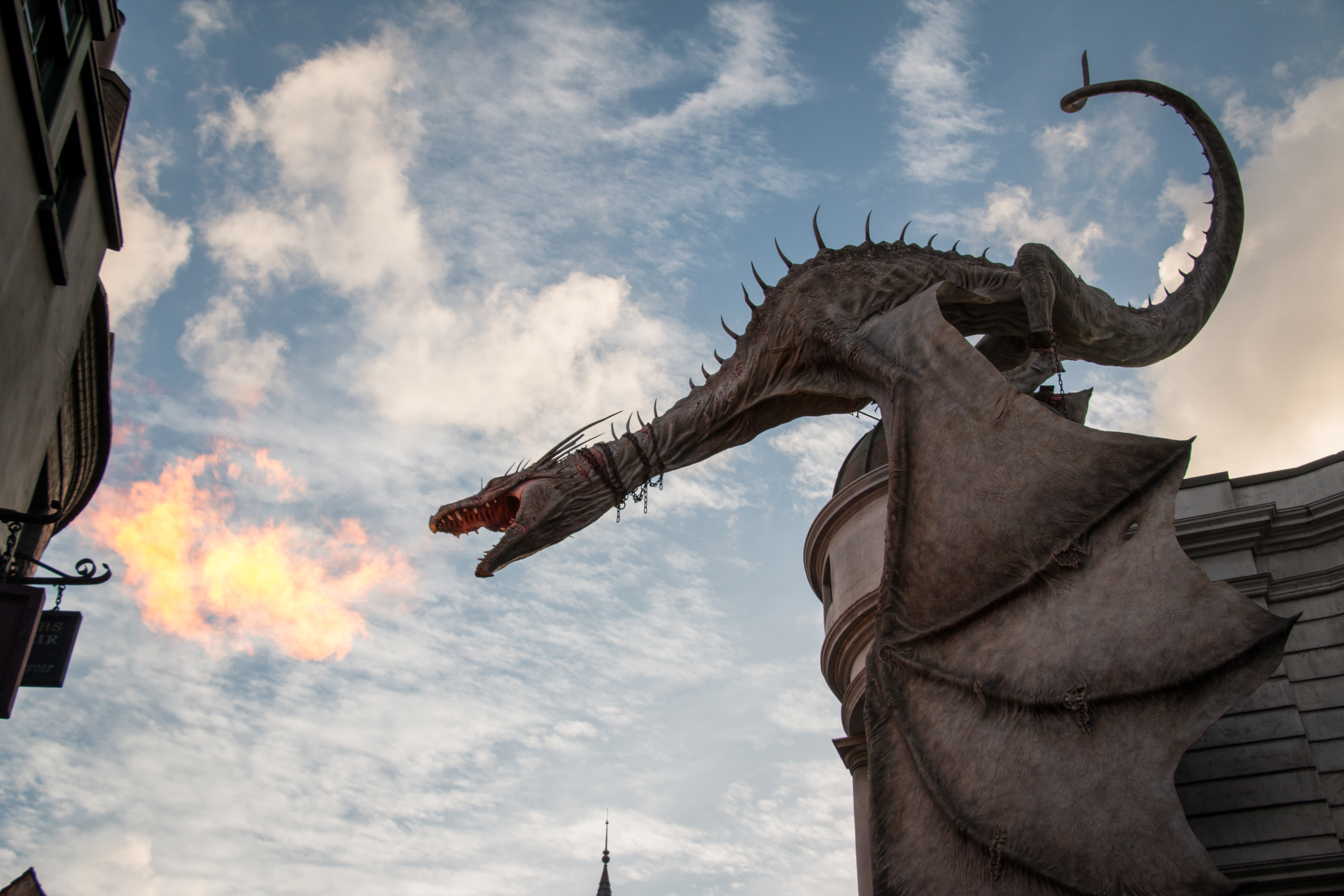 The dragon atop Gringotts in Diagon Alley at Universal Studios Florida is the best thing ever. Especially when it breathes fire!